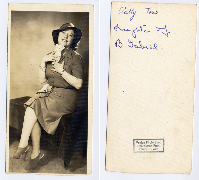 Scanned portrait photograph of Dolly Tree (1899 – 1962) from family collection, stamped by Venice Photo Shop, 1402 Ocean Front, Venice, California on the rear.